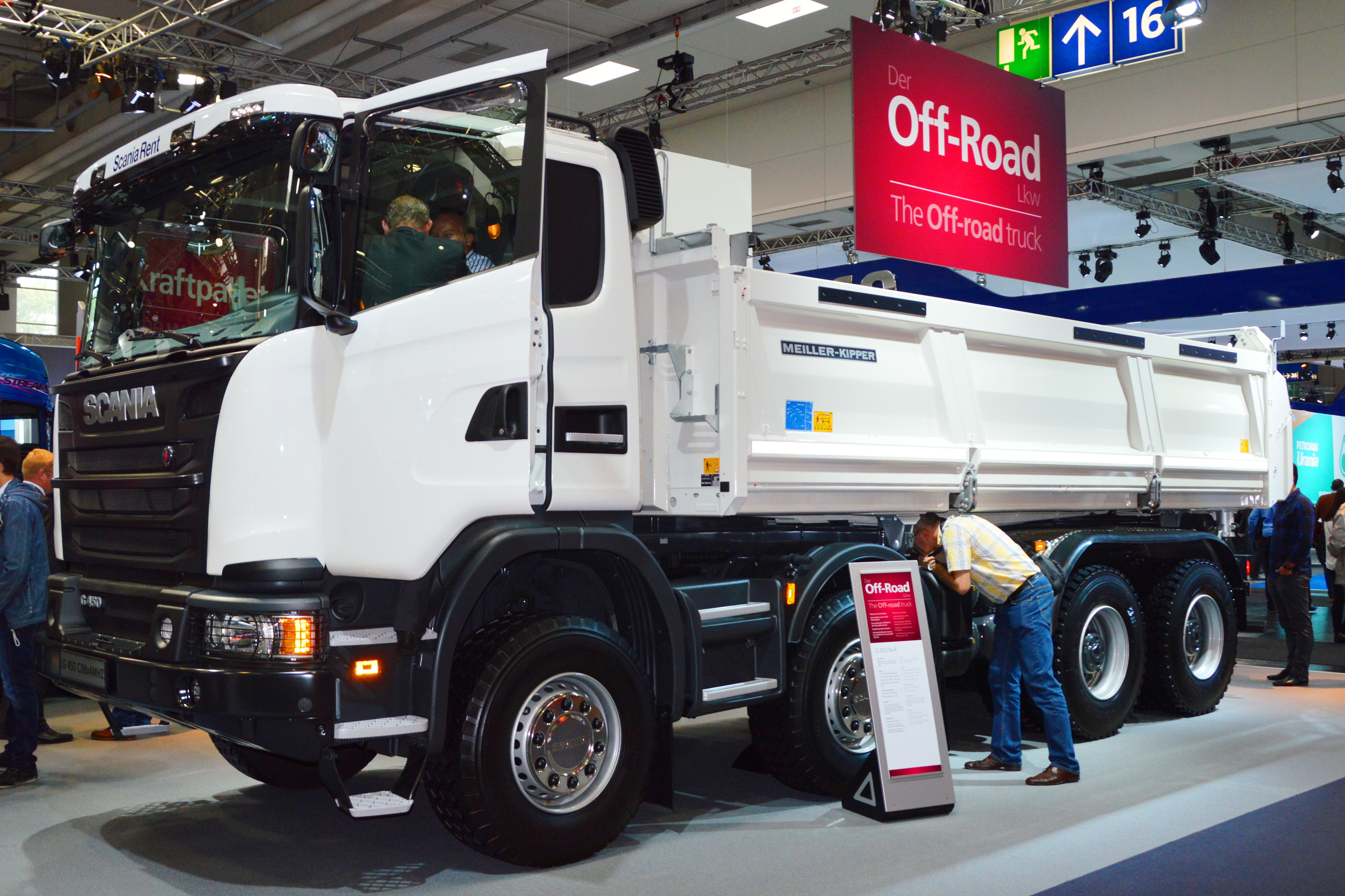 Scania G 450 Off-Road truck 8x4